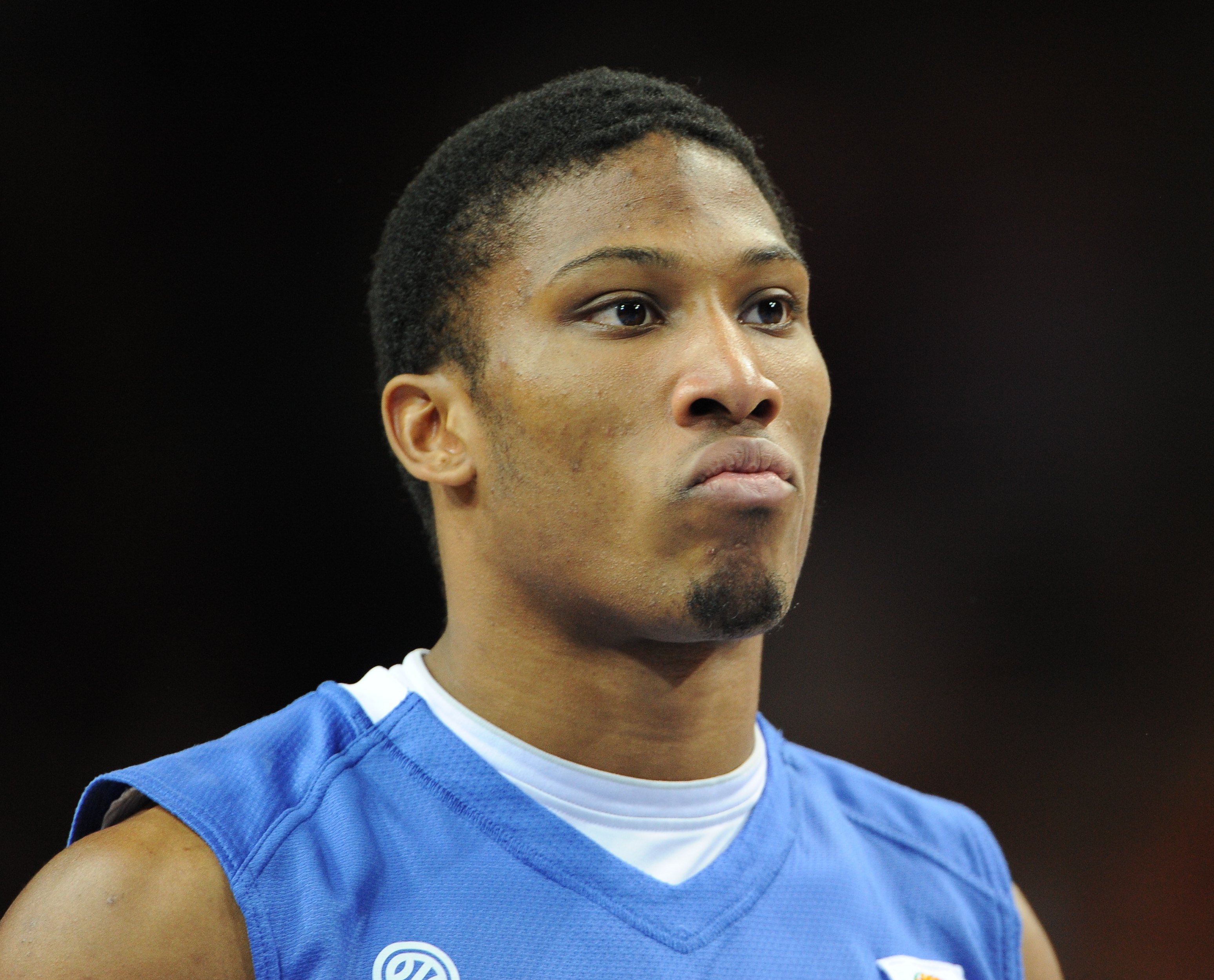 Andrew Albicy at EuroBasket 2011.